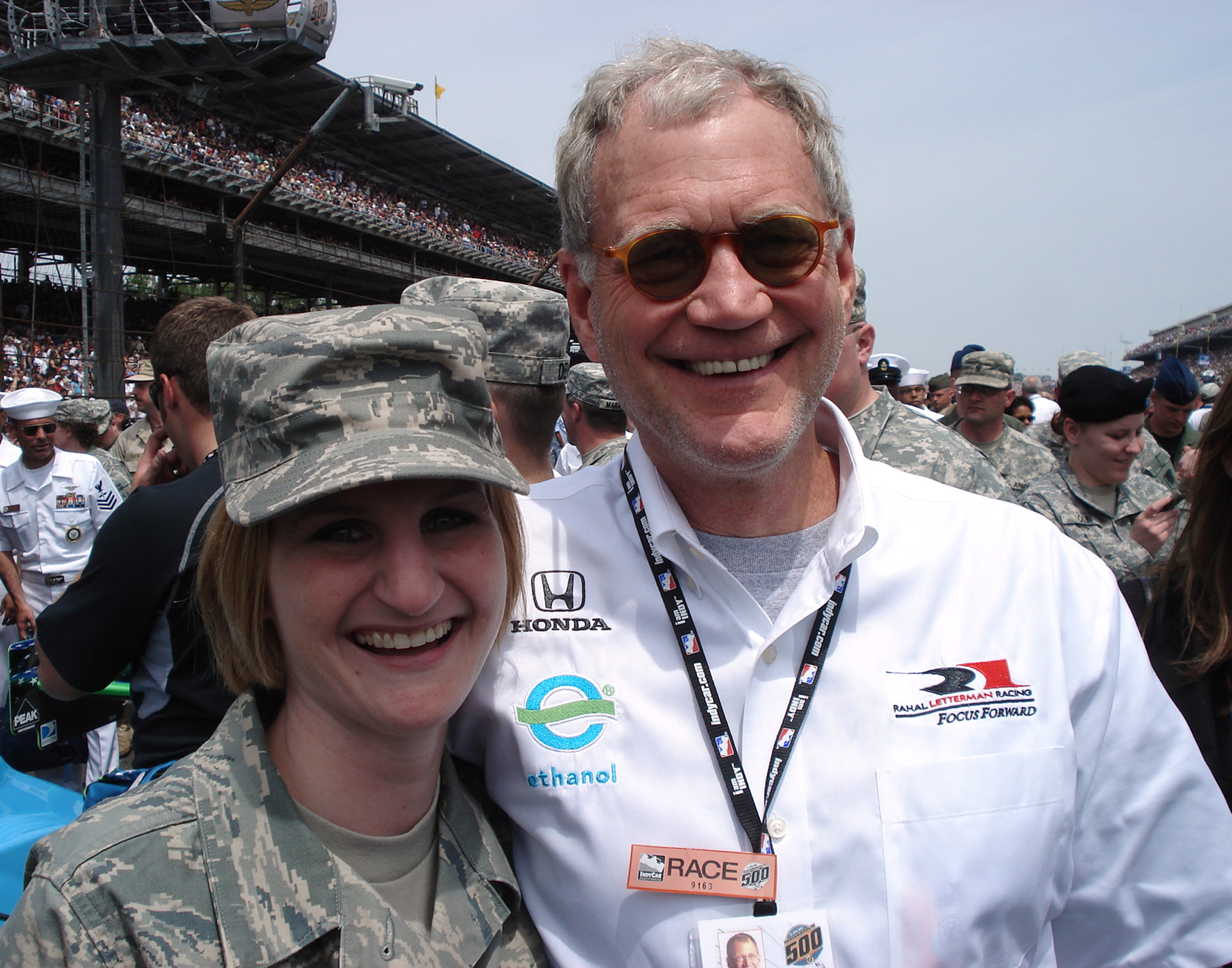 The 330th and the 338th Recruiting Squadron were able to tell the Air force story at the 92nd annual Indianapolis 500. The race was held at the Indianapolis Motor Speedway. The US Air Force recruiters were able to take a victory ride around the track in the opening pre-race activities. The Air Force was able to talk to the drivers and teams about what the Air Force does for this great nation. This was a great awareness event for the United States Air Force. There were more then a half million people in attendance.